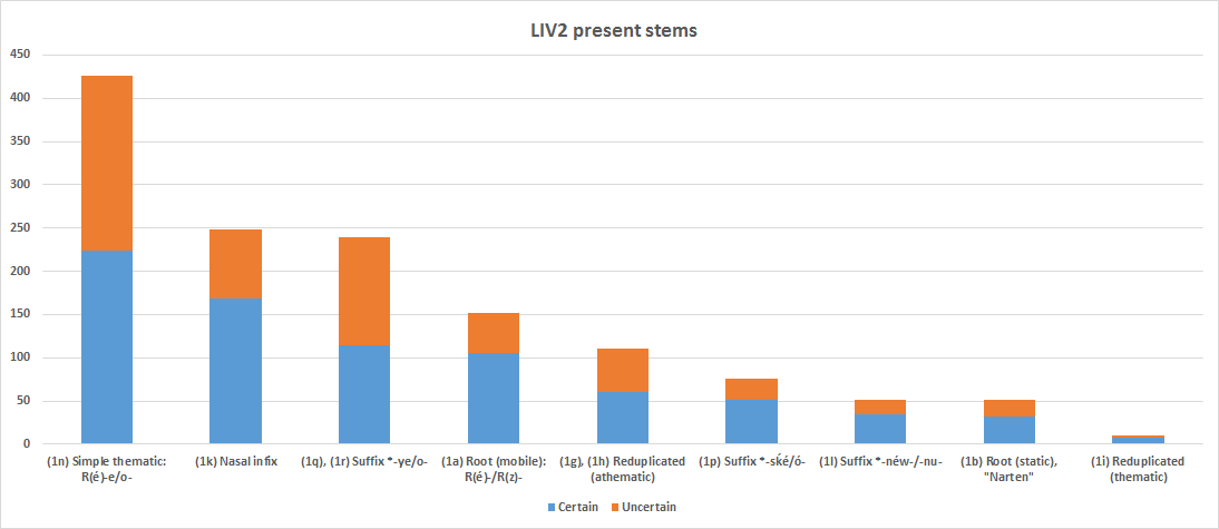 Chart of the most common present stems types according to the Lexikon der indogermanischen Verben v2